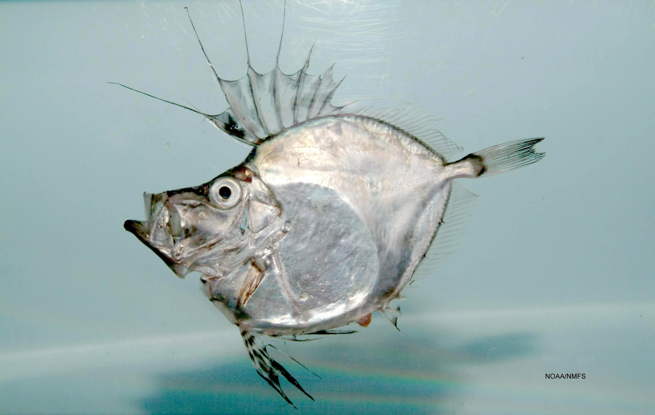 Zenopsis conchifera from the Gulf of Mexico